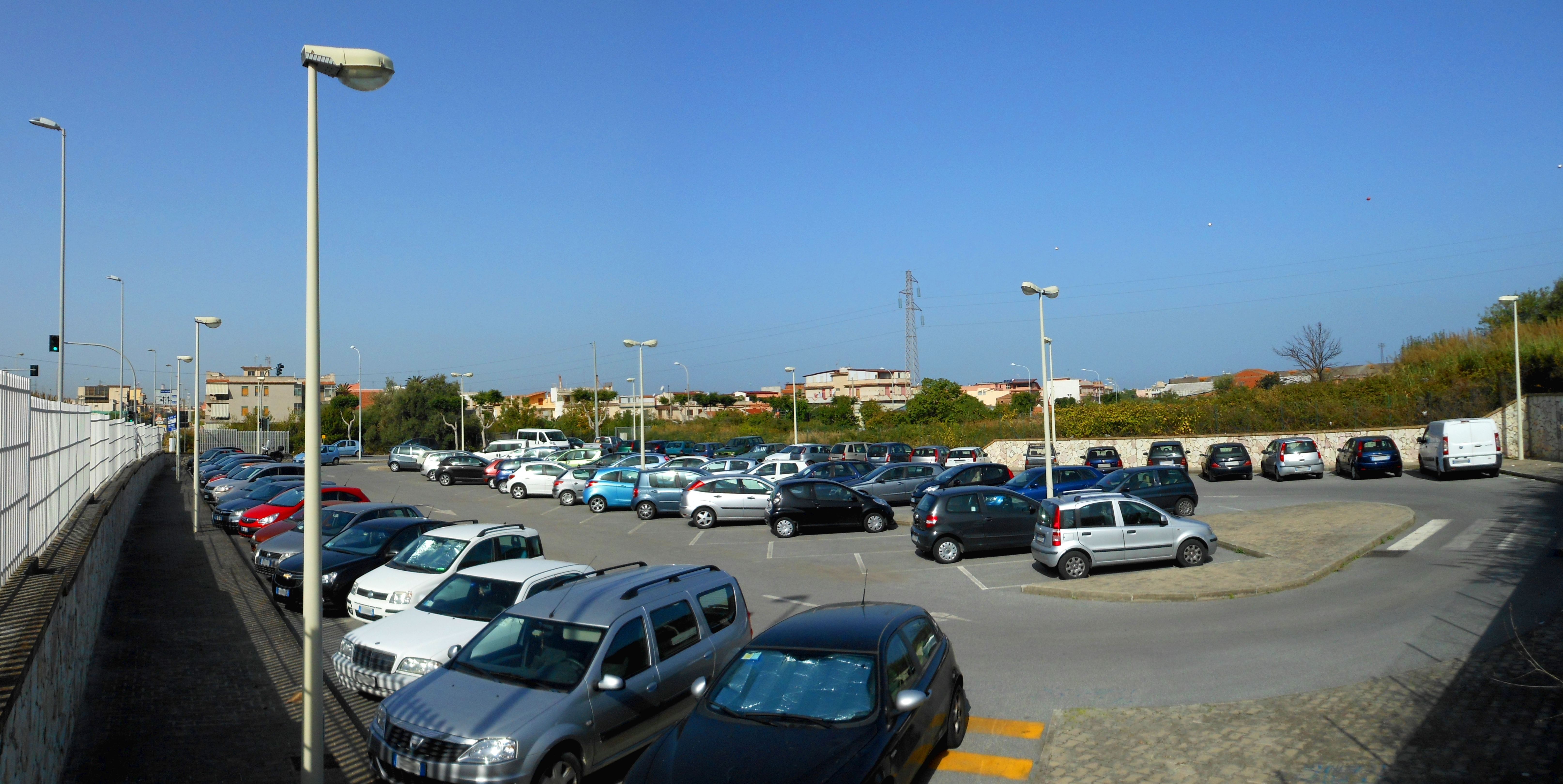 Car parking of Torregrotta train station, Torregrotta, Sicily, Italy.